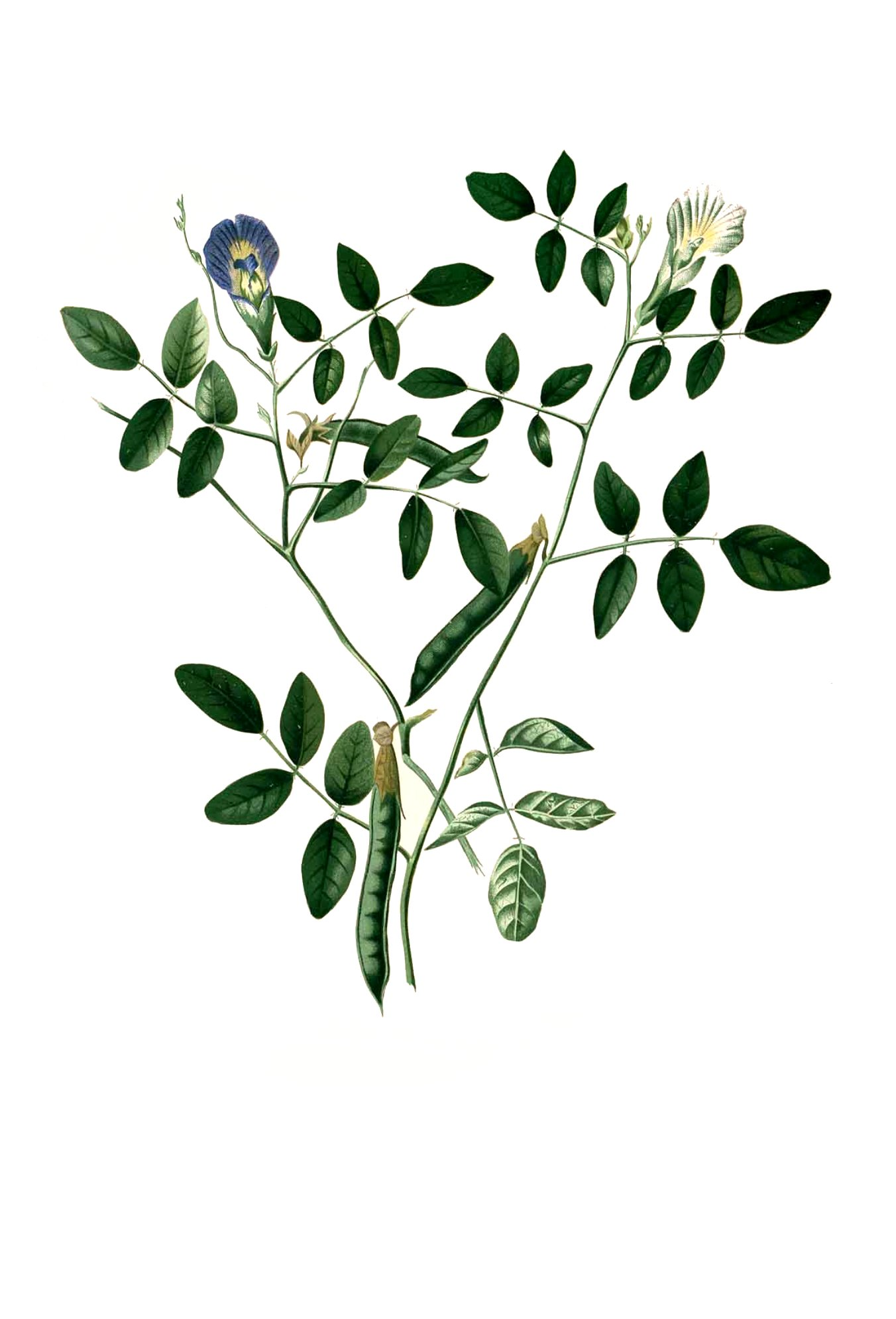 Name Clitoria ternatea Plate from book